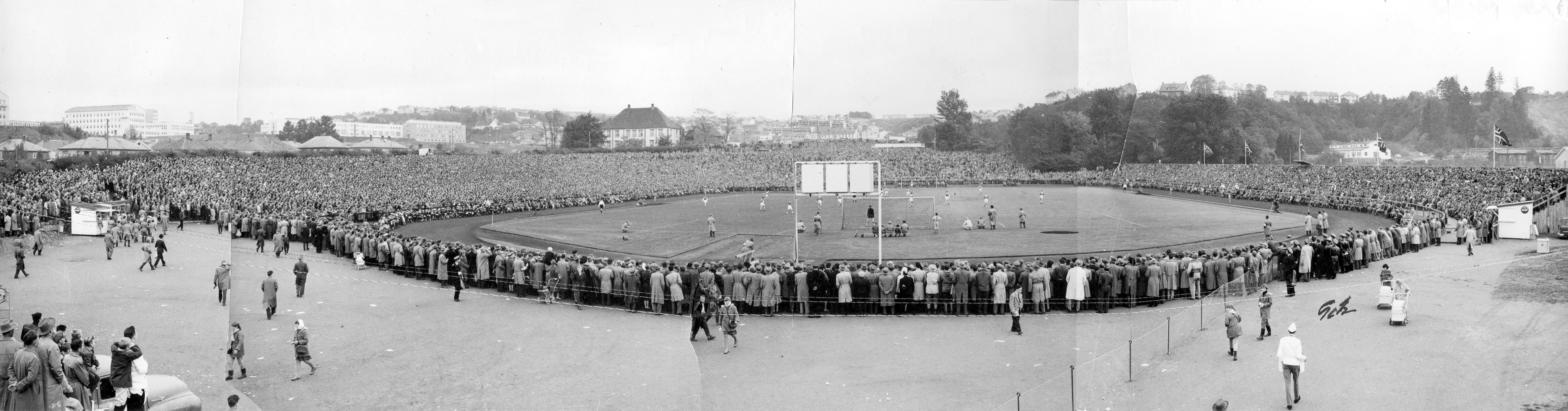 Replay of the quarter-final in the Norwegian Cup between Nessegutten and Viking. The match was attended by 25,045 paying spectators with Viking winning 0–4.